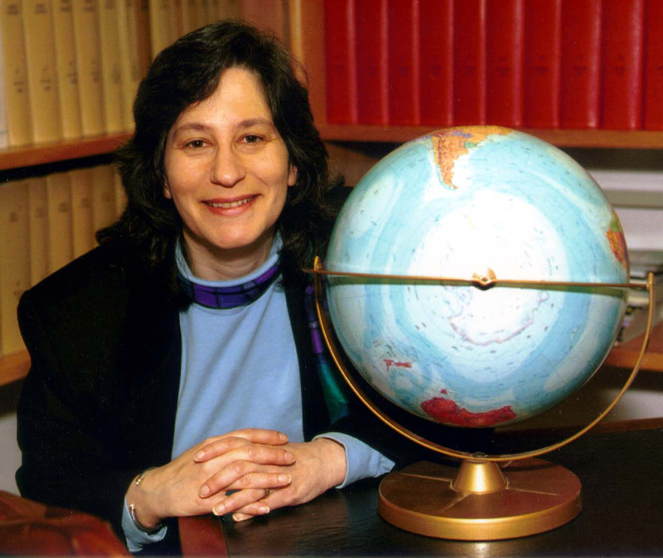 Susan Solomon-Desk With Globe